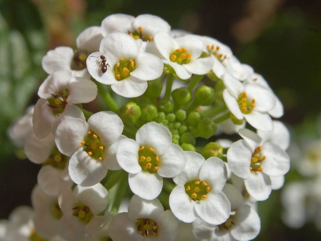 Lobularia maritima - Genova, Italy